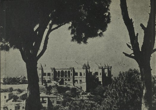 Baabda Palace - 1947